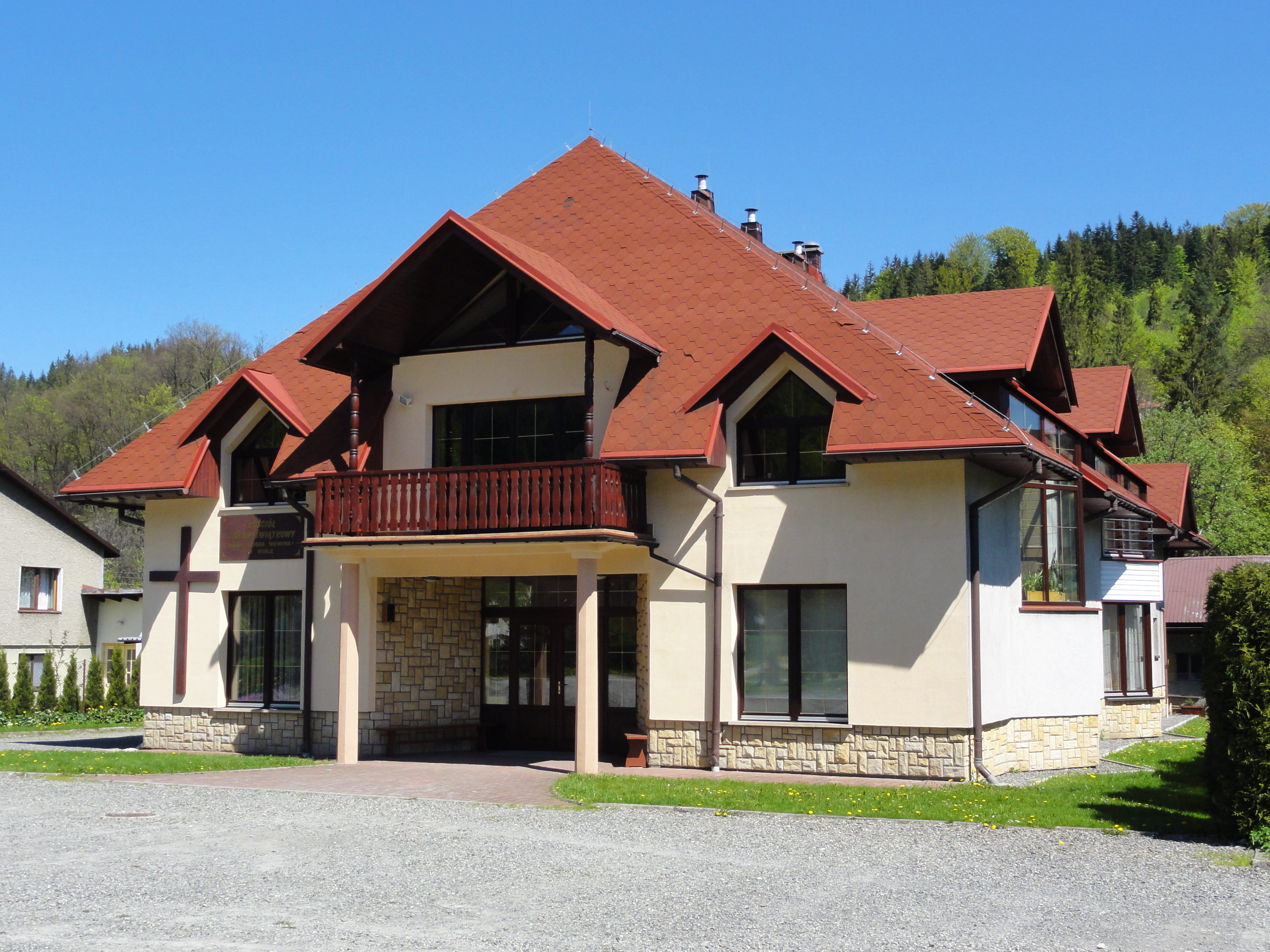 Pentecostal church in Wisła-Nowa Osada